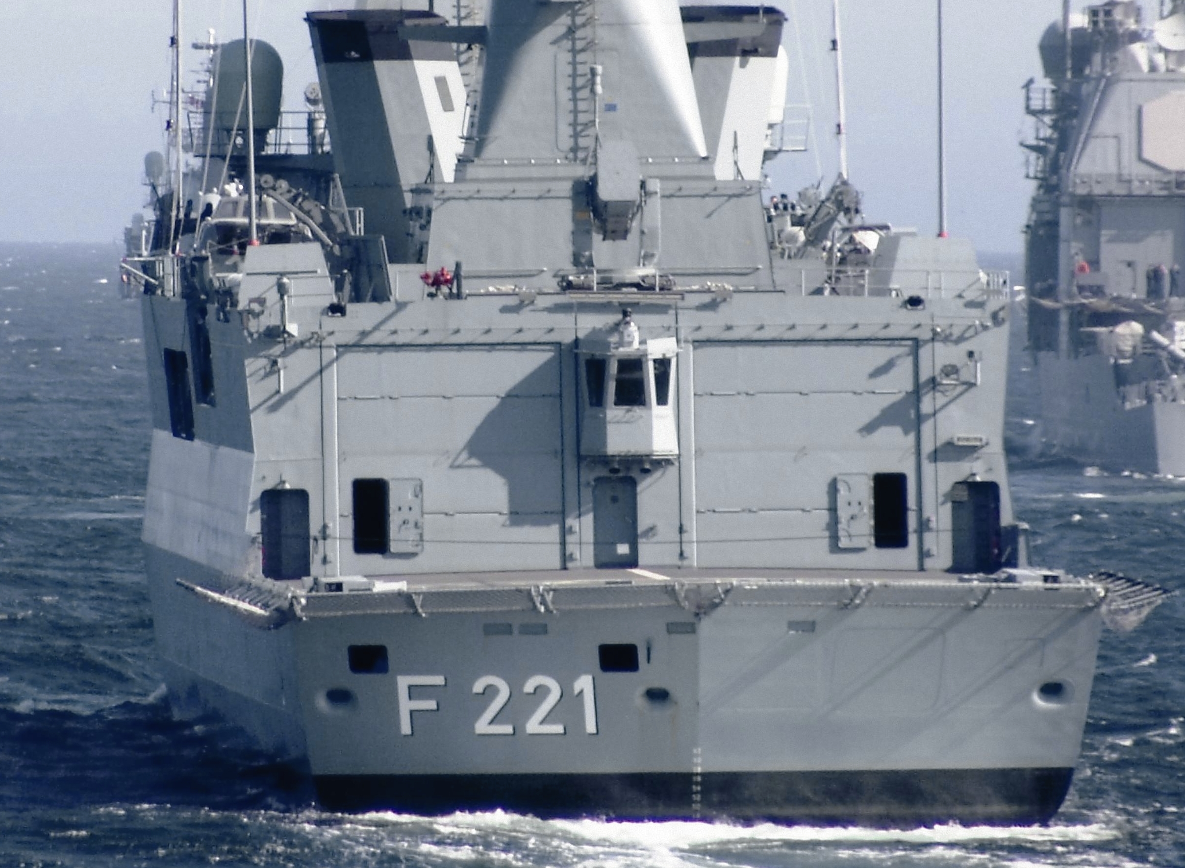 Flight deck of German Frigate FFG Hessen (F 221) with explanations on technical details